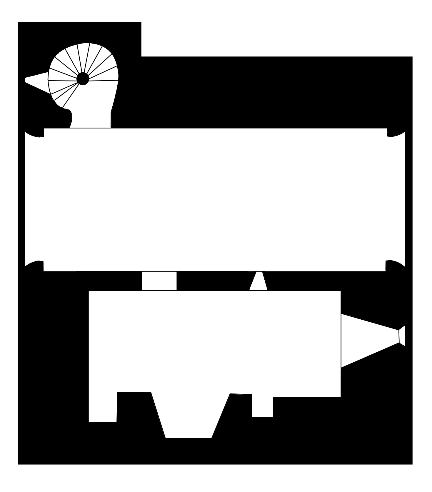 Marmion Tower plan; after VCH, 1914